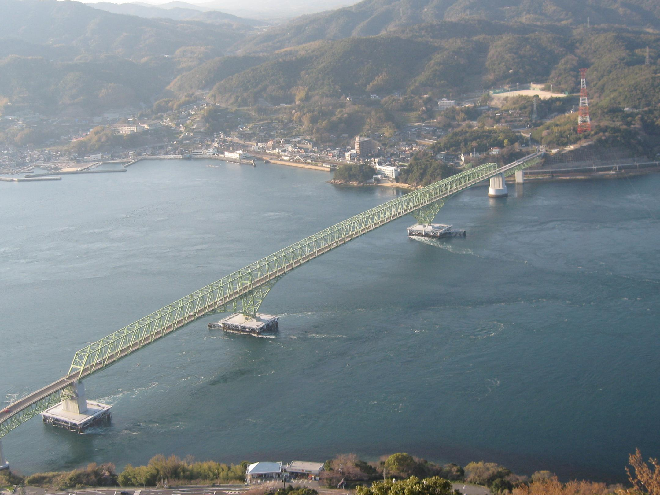 Oshima Big Bridge (view from mountain)